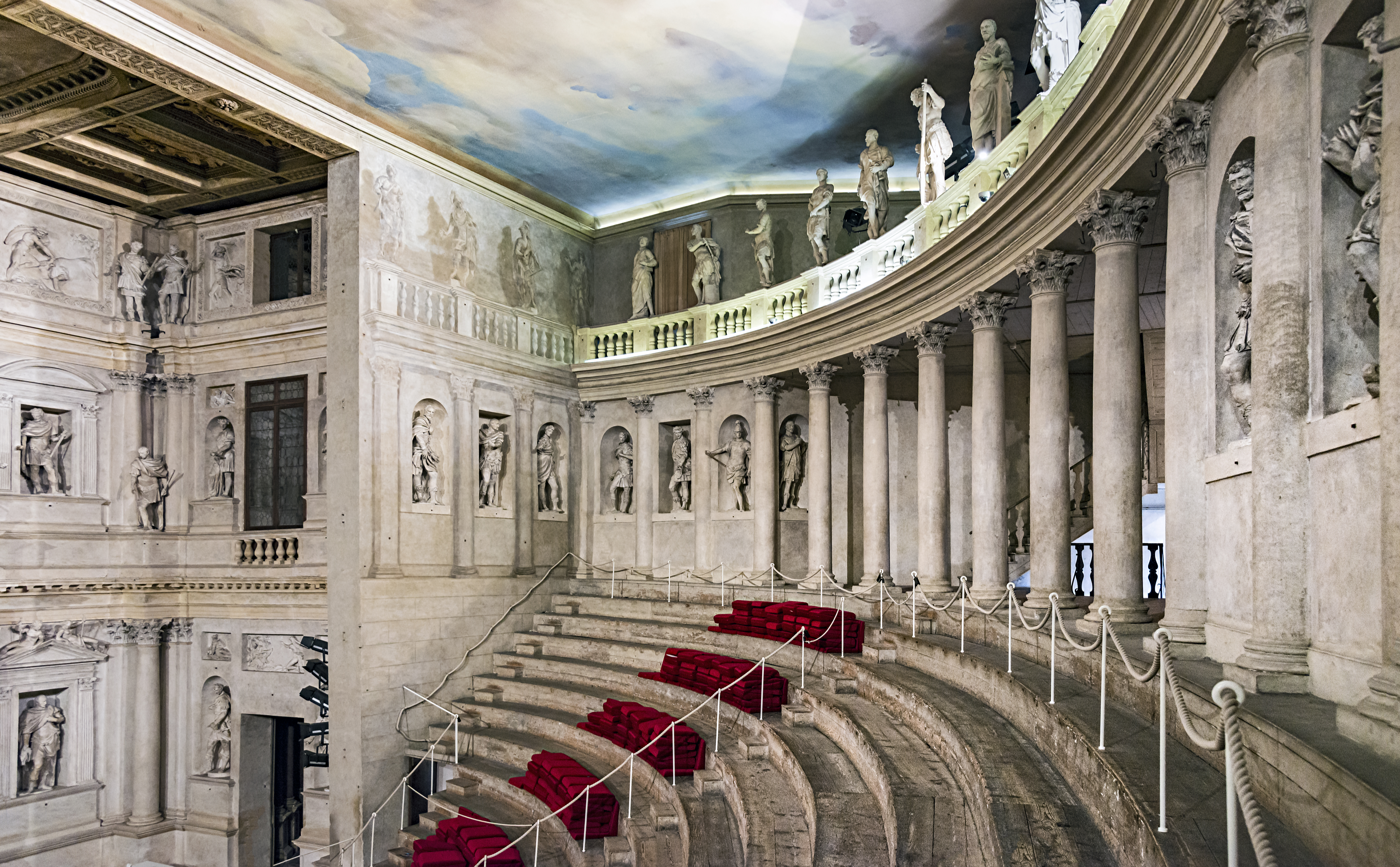 Teatro Olimpico. Theater located in Vicenza, designed in 1580 by the architect of the Renaissance Andrea Palladio. It is generally considered the first permanent covered theater of modern times. View of the hall and the bleachers.